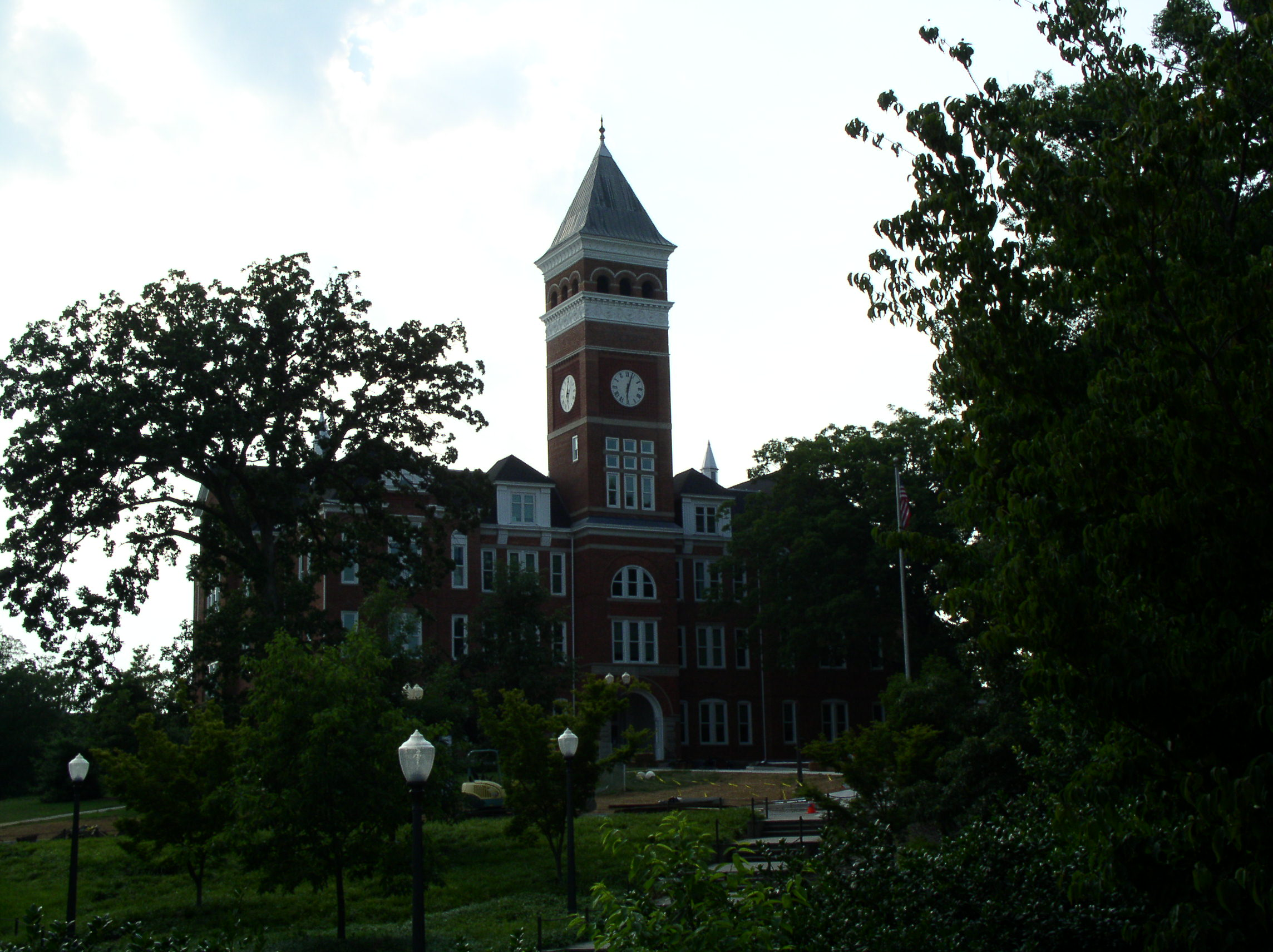 Tillman Hall of Clemson University